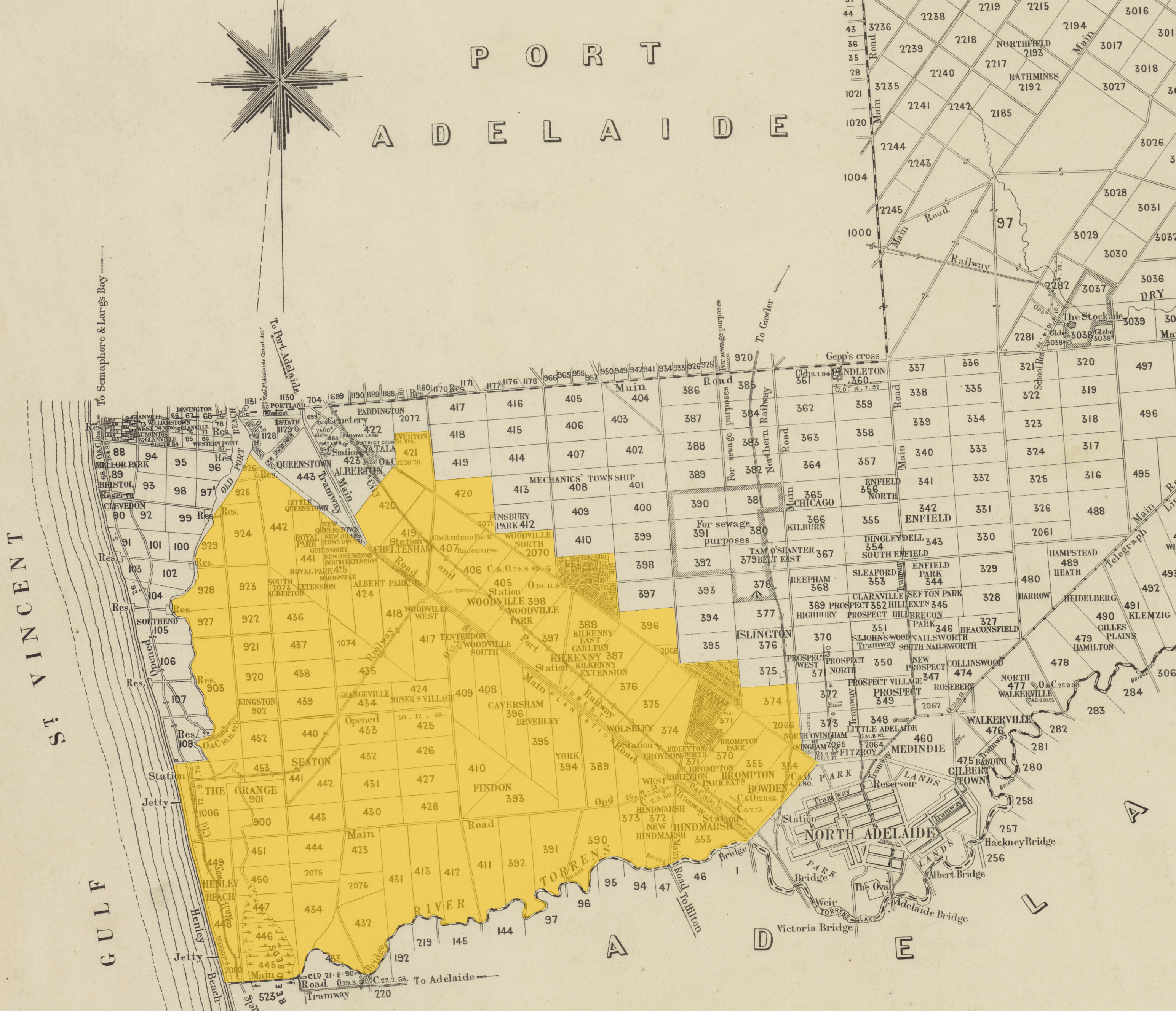 Map showing boundaries of Hindmarsh Council at establishment in 1853, superimposed on map of the Hundred of Yatala (1896)}. Based on boundary description in SA Government Gazette, 2 June 1853 ( and public domain image of Hundred of Yatala: ("Hundred of Yatala, 1896 (23700943431).jpg").